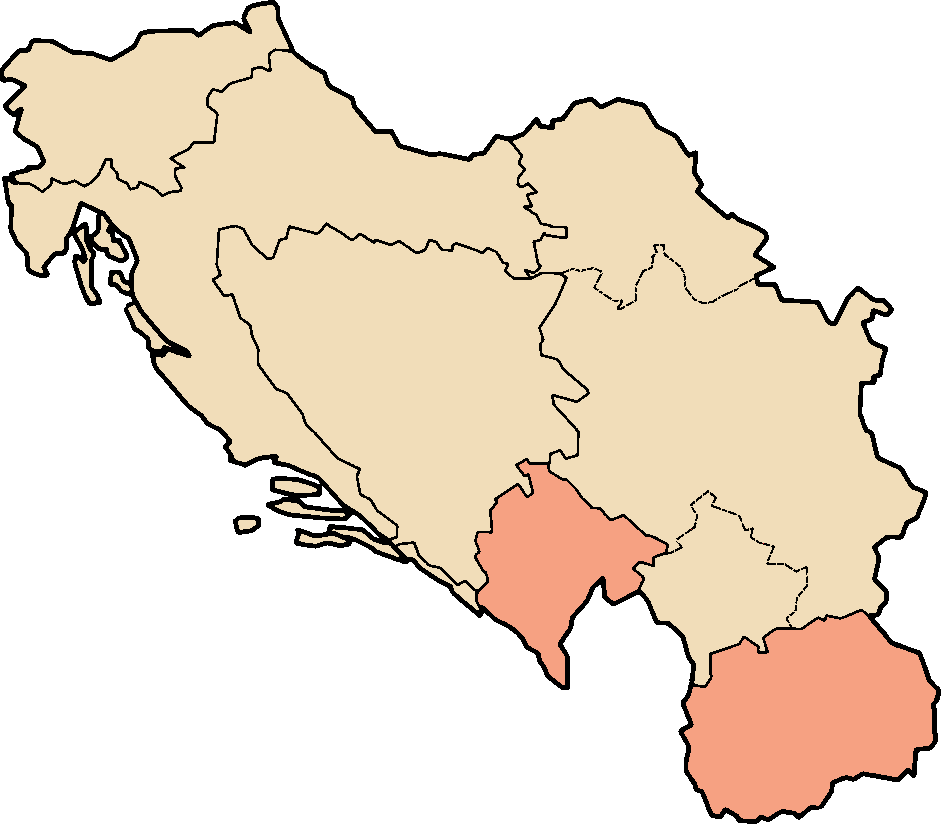 Location of SR Montenegro and SR Macedonia in SFR Yugoslavia